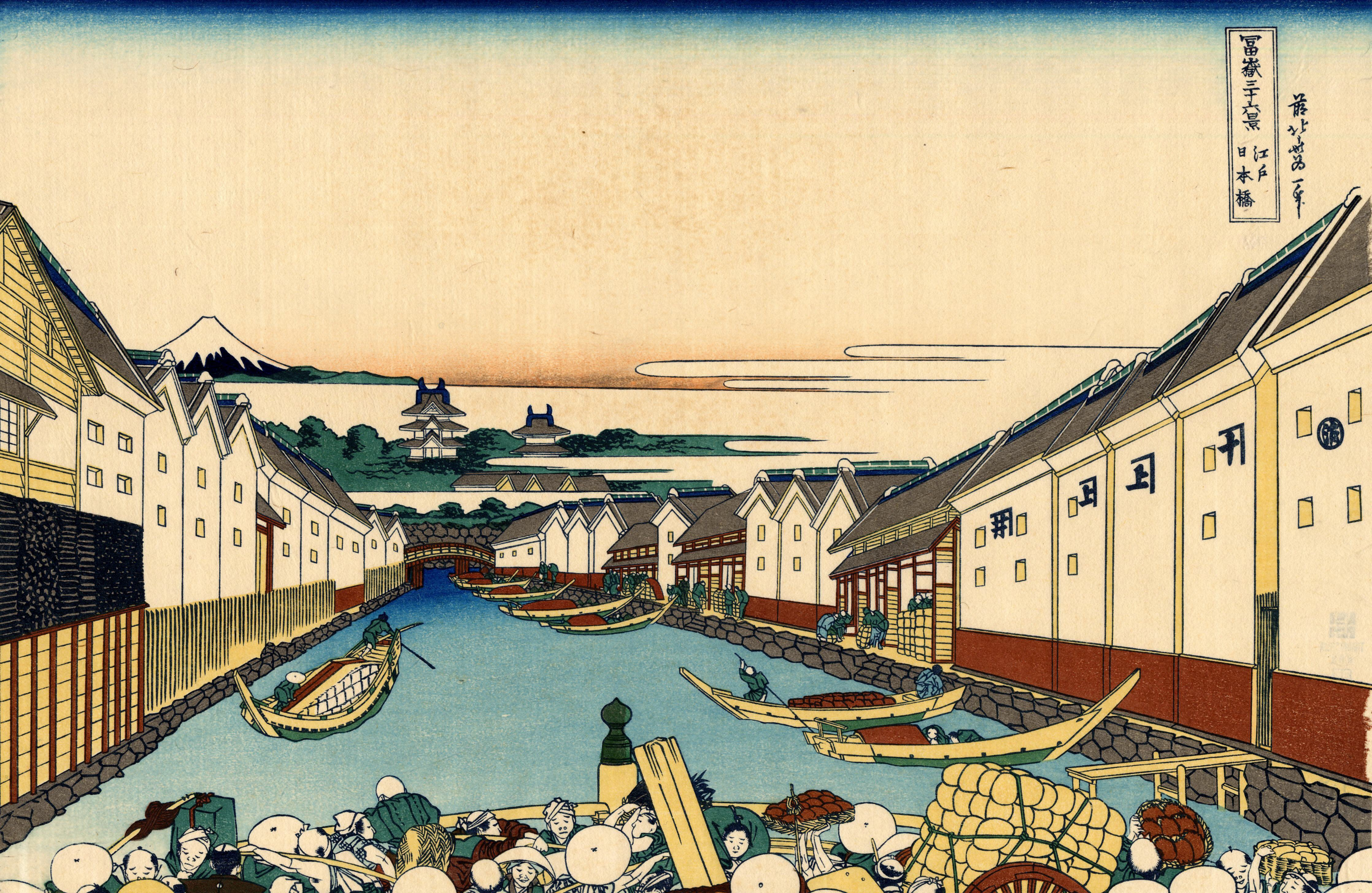 Part of the series Thirty-six Views of Mount Fuji, no. 01.